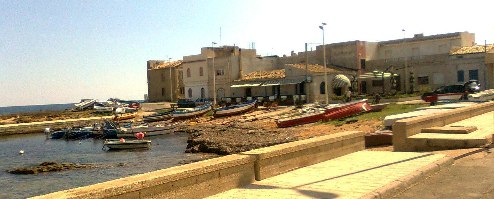 View of Calabernardo, District of Noto, Sicily, Italy